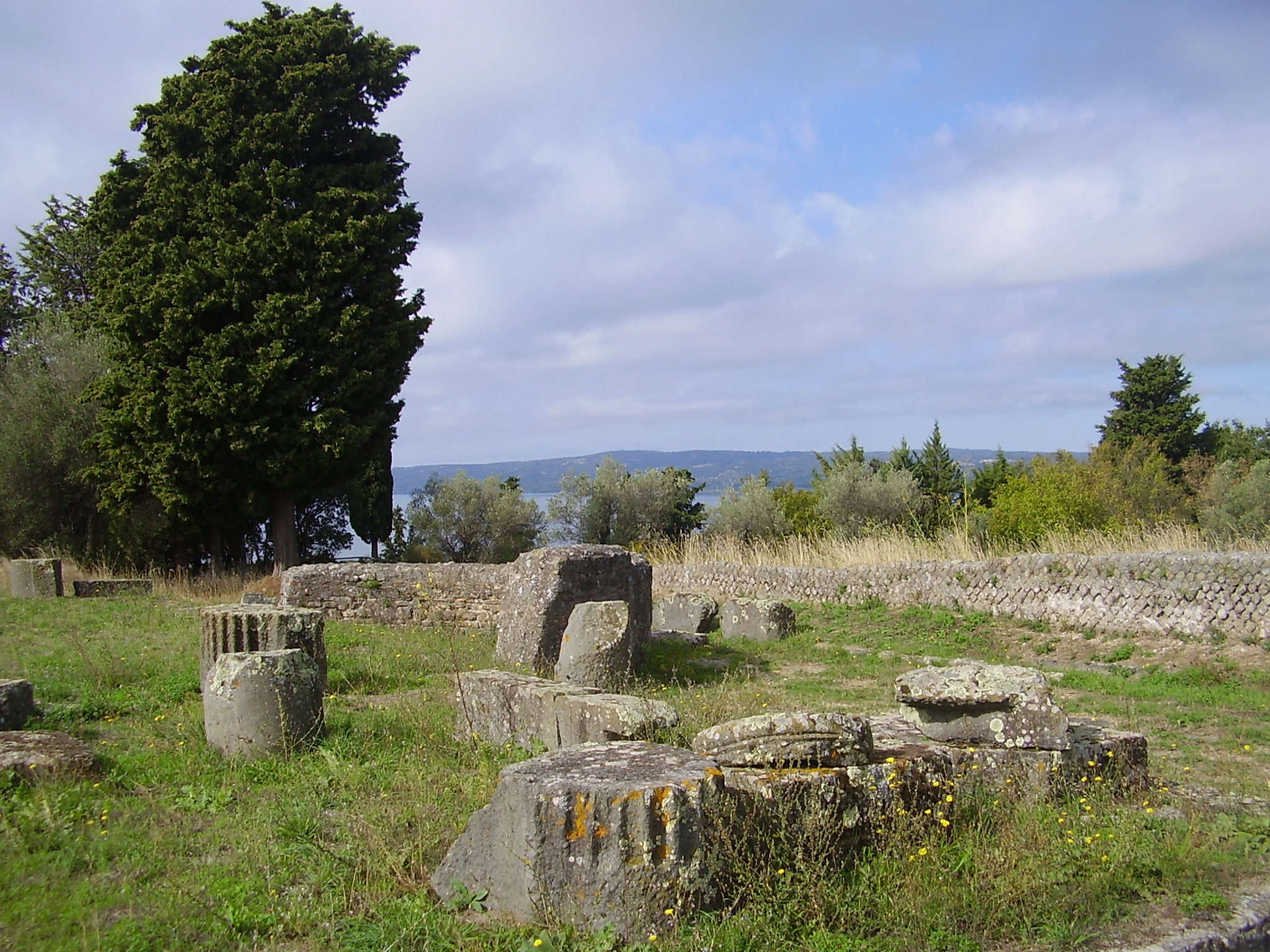 Archeological area of Volsinii city, foro This is a photo of a monument which is part of cultural heritage of Italy.